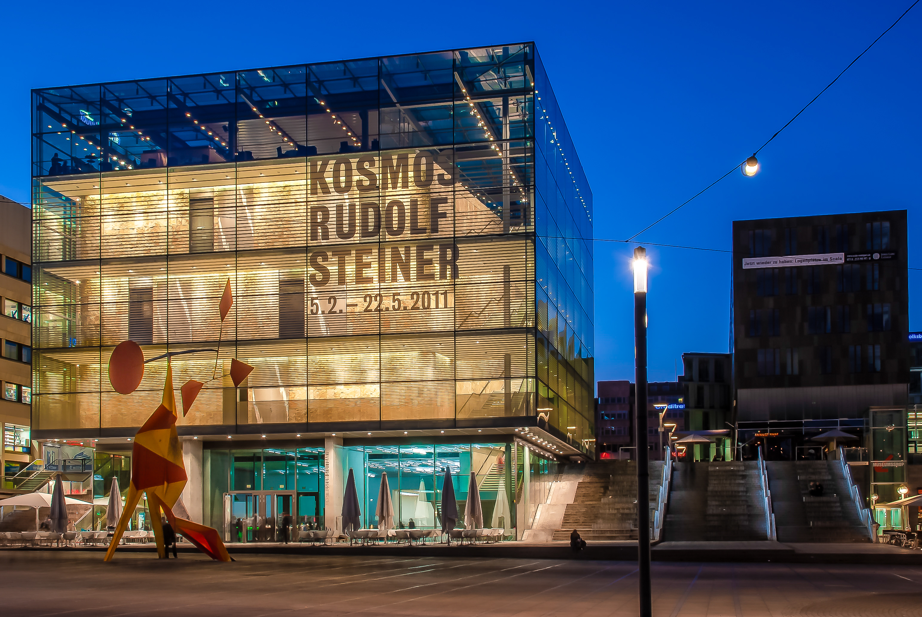 Kunstmuseum (Art Museum) Stuttgart, Germany. HDR image, produced with WebHDR.